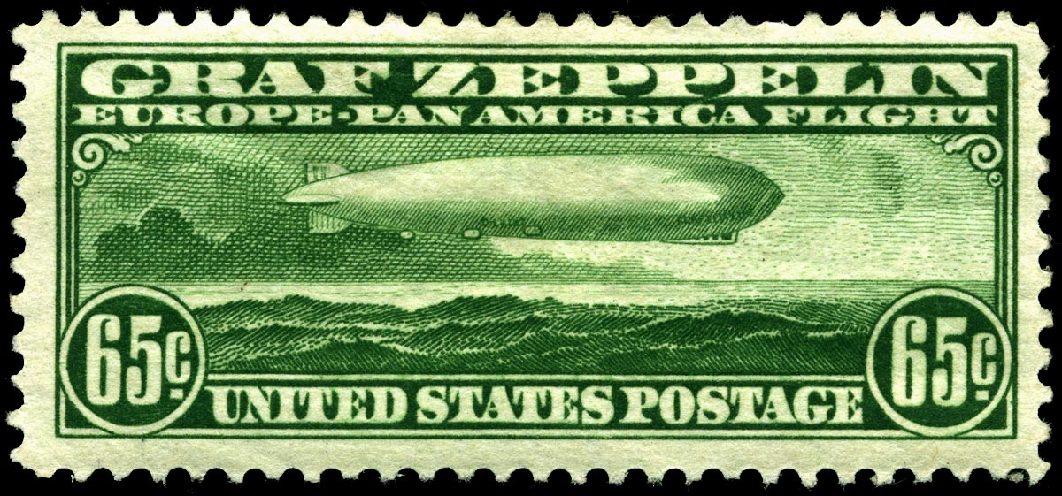 1 of 3 1930 Graf Zeppelin stamps, 65-cents, Green; (SCOTTS# C-13)